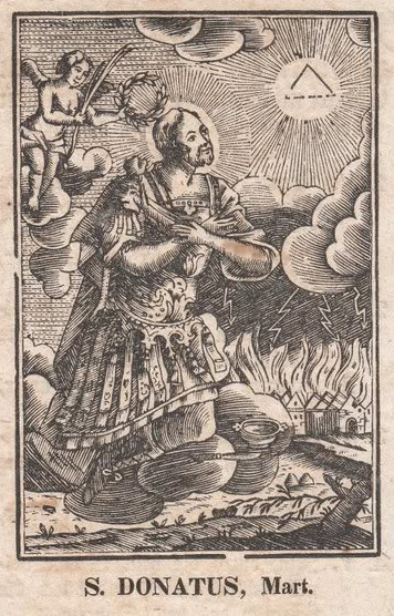 Saint Donatus of Muenstereifel